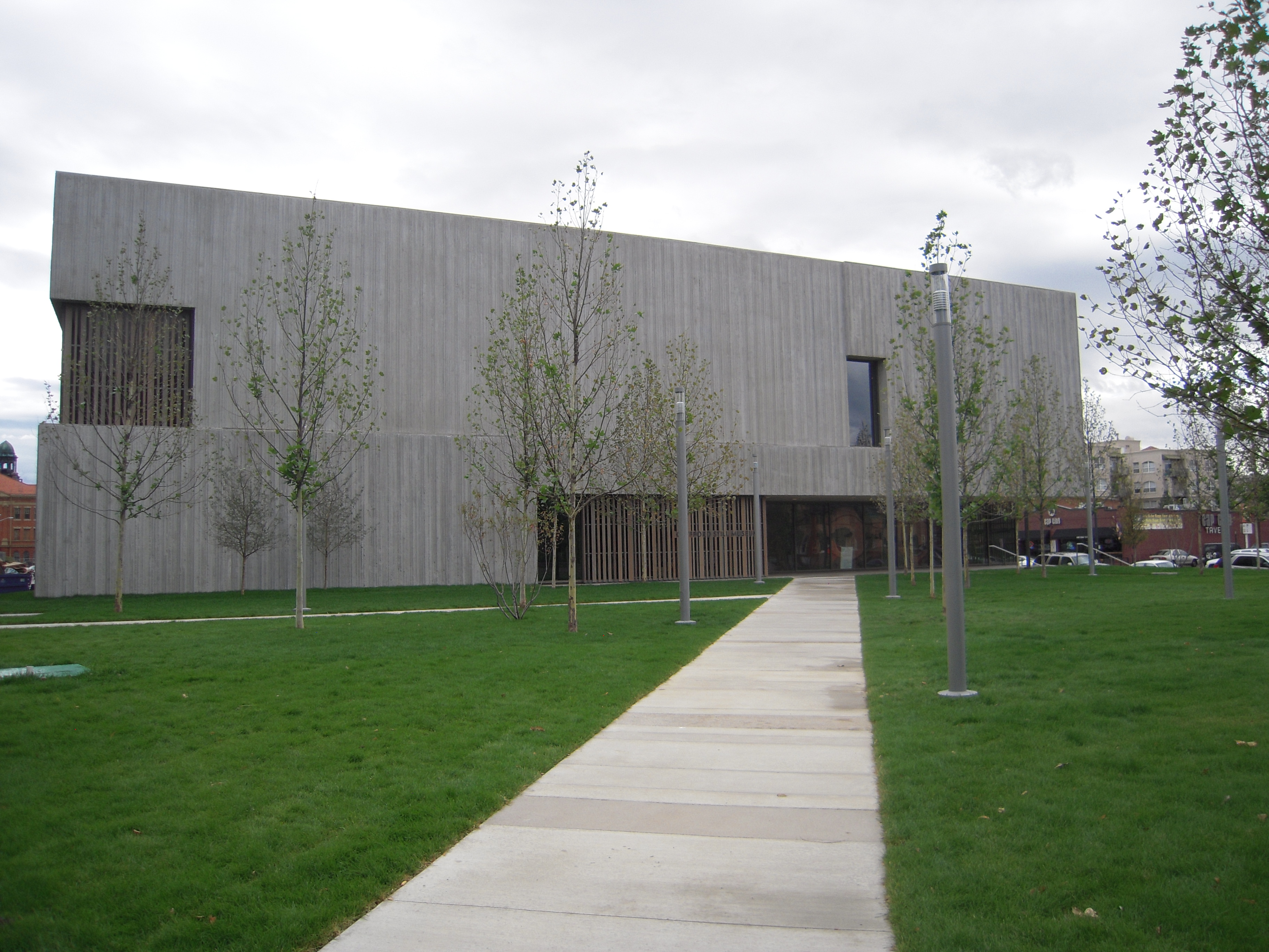 Glyfford Still Museum in Denver, CO